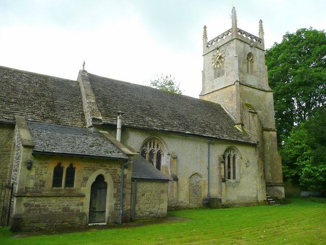 All Saints church, Lydiard Millicent View from the northeast.